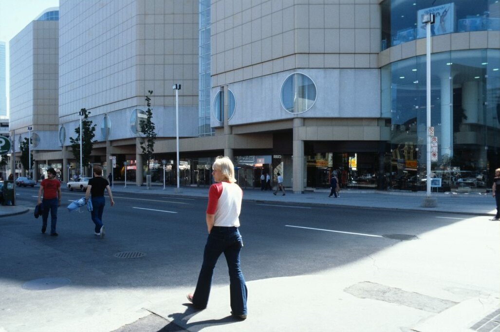 Photographer: City of Toronto Planning and Development Department ca. 1979 City of Toronto Archives Series 1465, File 308, Item 1